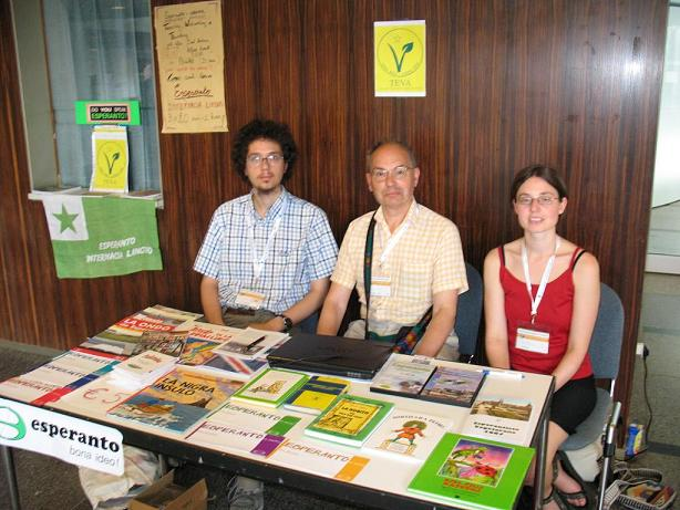 Board of TEVA, the International Esperanto Vegetarian Association